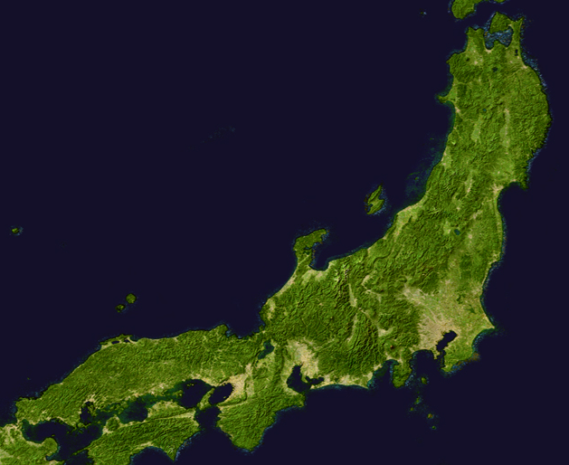 Satellite image of Honshu